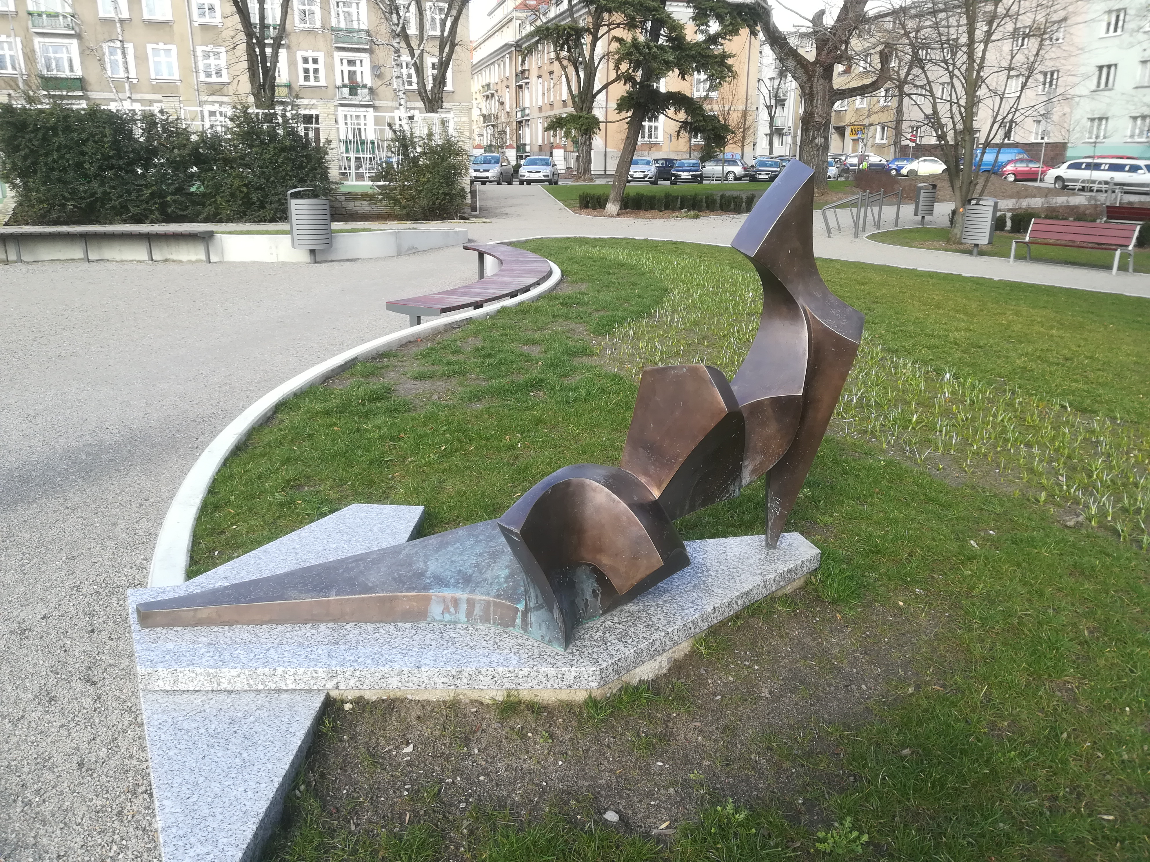 Kazimierz Nowakowski Square in Poznań. Bronze sculpture Leżąca w słońcu by Anna Rodzińska (2018).